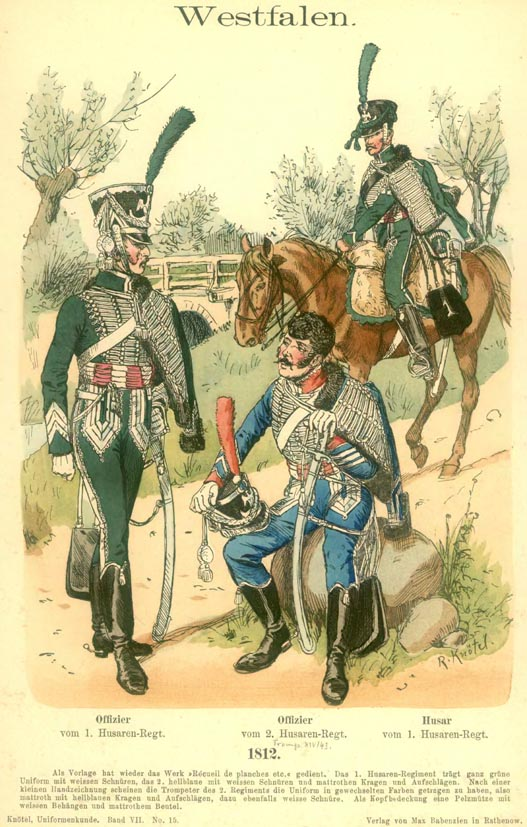 Uniform plate of westphalian hussar 1812